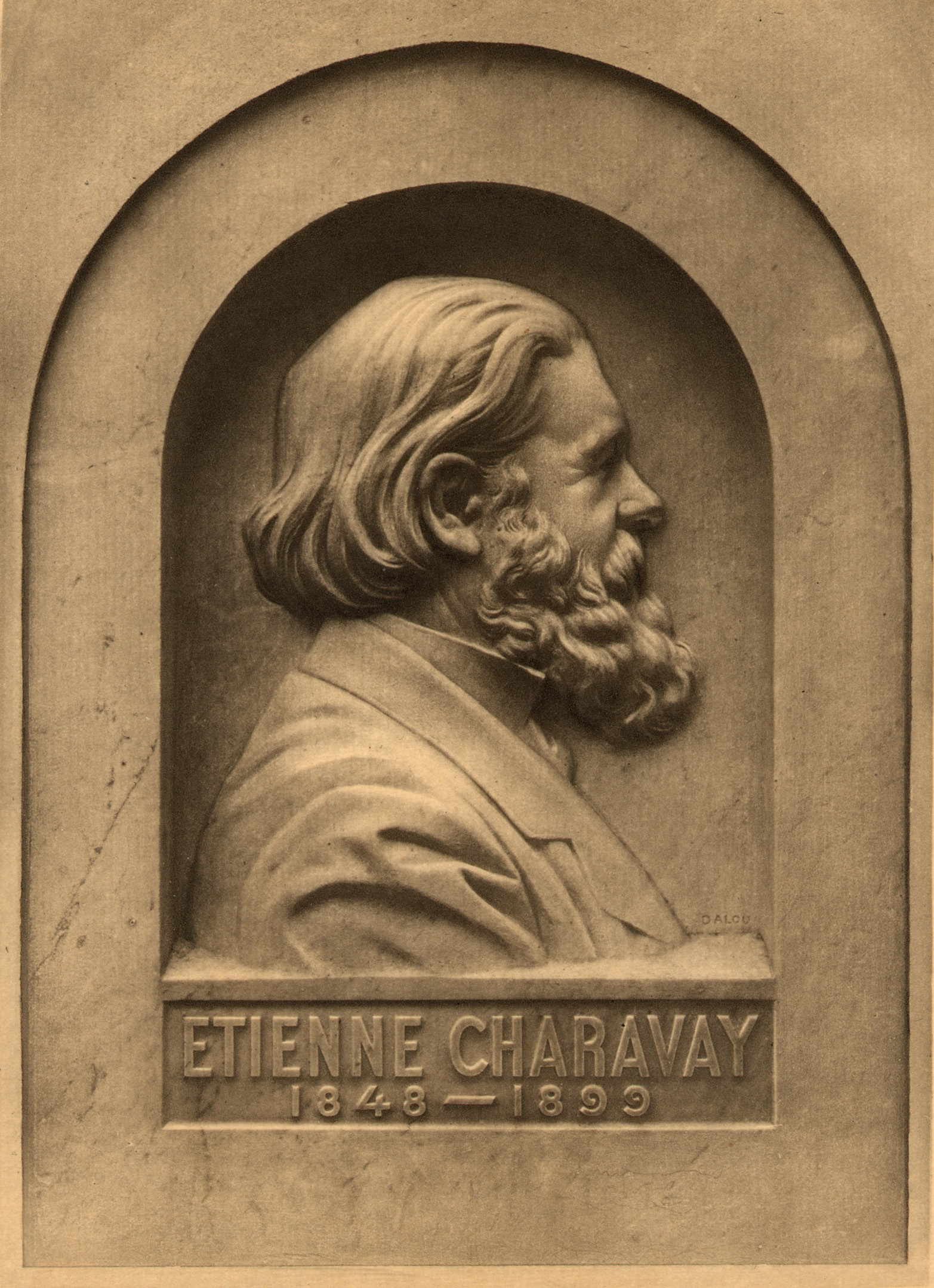 Etienne Charavay's bust medallion by Jules Dalou (1901) - Montparnasse cemetery, Paris.